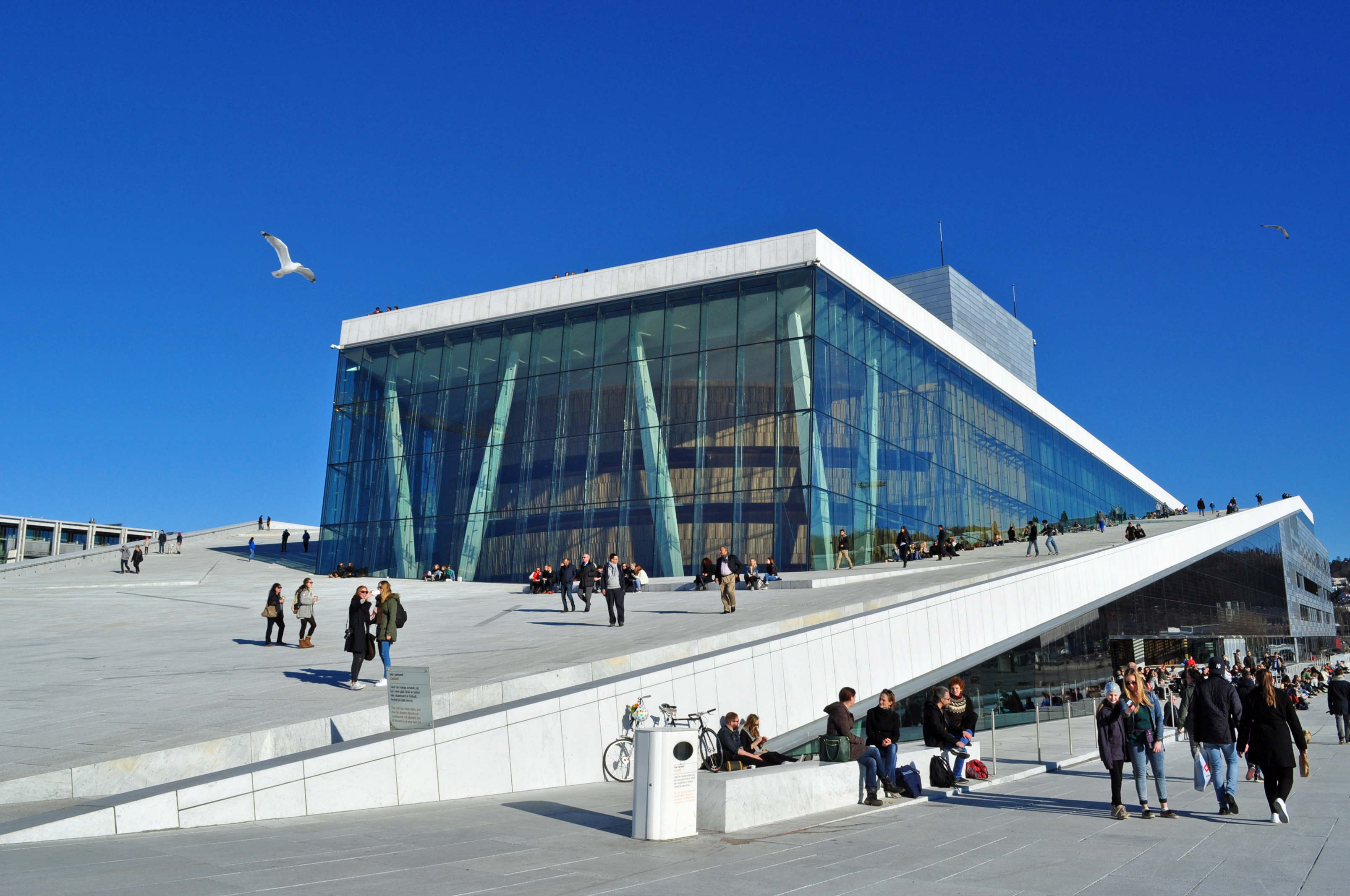 Oslo Opera house